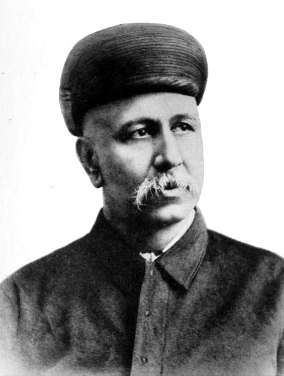 Govardhanram Tripathi, Gujarati language author from India. He died in 1907,so image must be in public domain